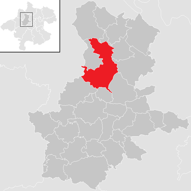 district Grieskirchen, municipality Peuerbach.